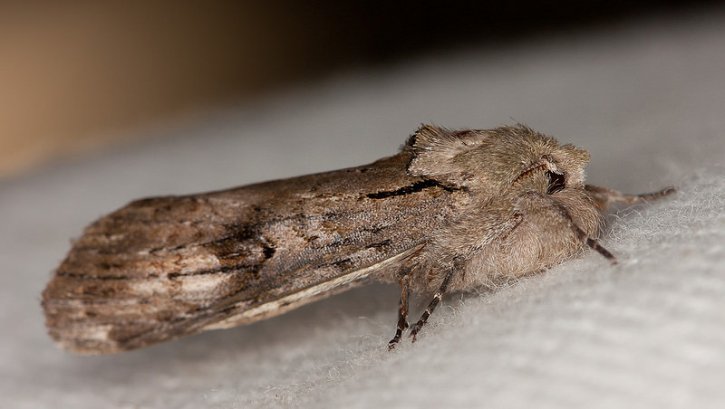 6/26/11 Boone County MO Photo and ID thanks to Lee Elliott